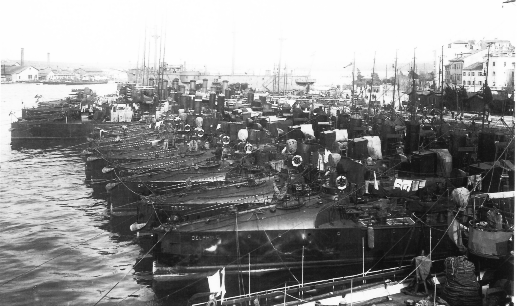 Torpedo boats of the Austro-Hungarian Navy at the naval base in Pula. The following boats, from front to back, are visible: Delphin (56T), Triton (64F), Drache (62T), Seehund (55T), Polyp (69F), Greif (63) and other